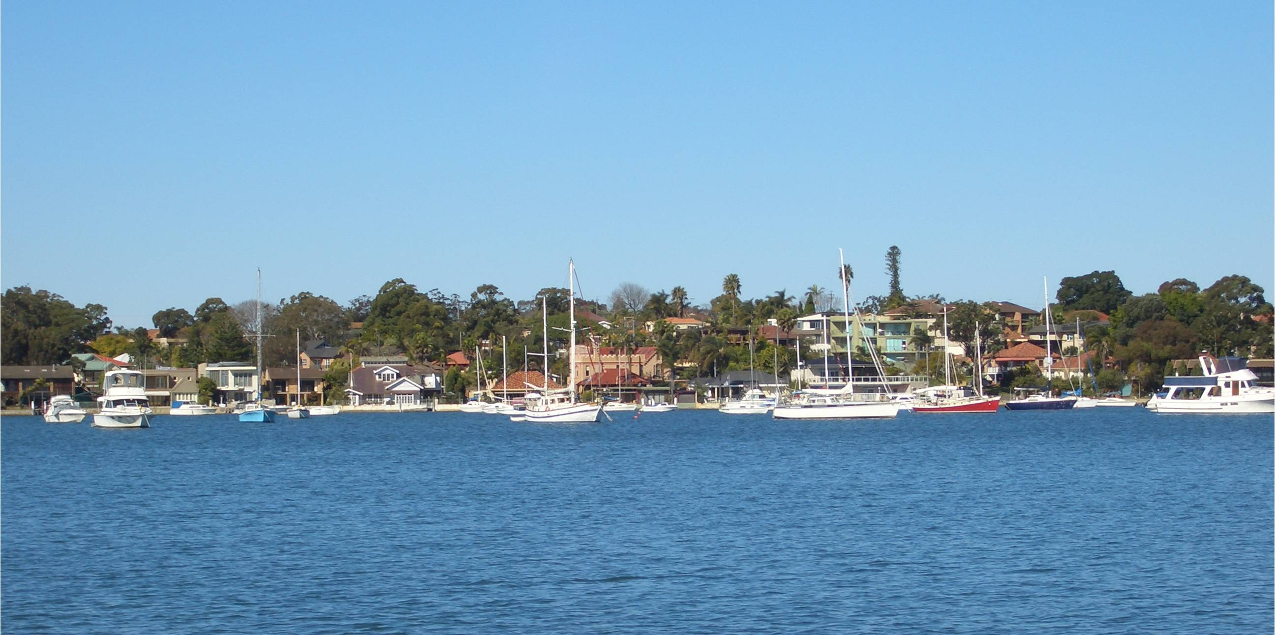 Sans Souci, Sydney, Australia.